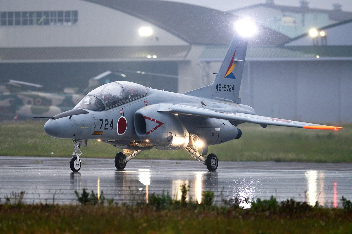 Dark rainy evening at Iruma.